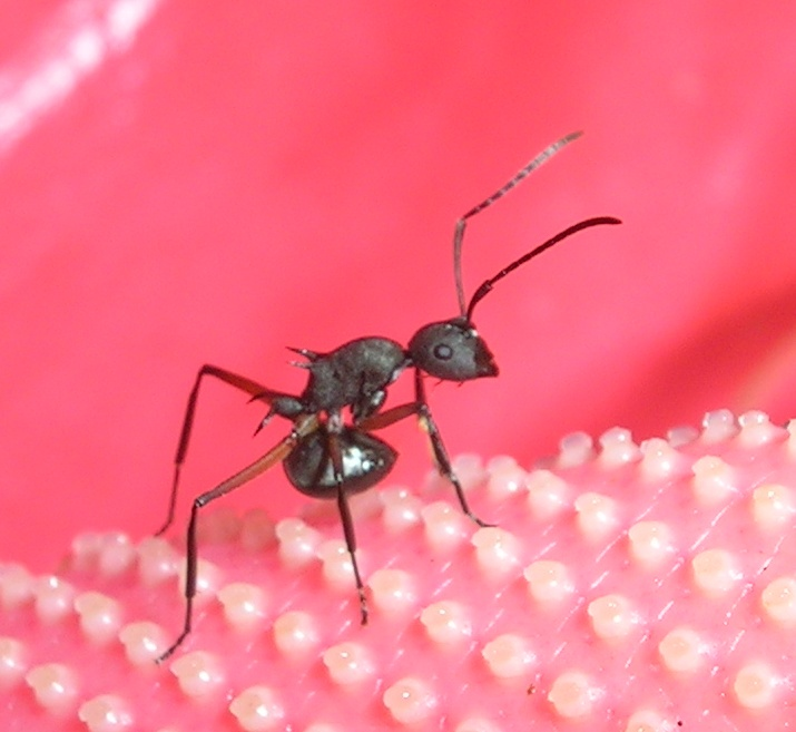 Polyrhachis lacteipennis from North Wayanad, Kerala. Determination by Dr. Musthak Ali.